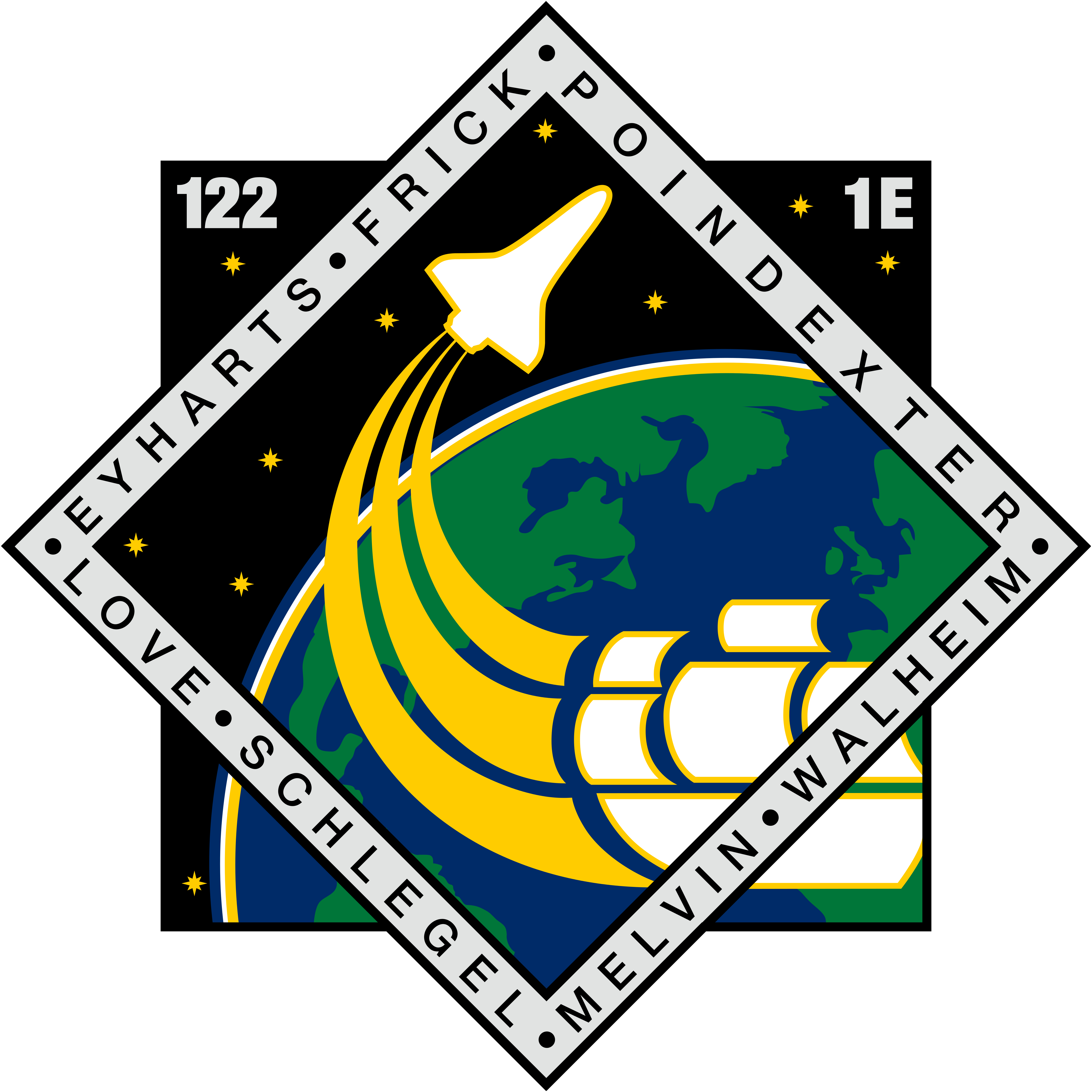 The STS-122 patch depicts the continuation of the voyages of the early explorers to today's frontier, space. The ship denotes the travels of the early expeditions from the east to the west. The space shuttle shows the continuation of that journey along the orbital path from west to east. A little more than 500 years after Columbus sailed to the new world, the STS-122 crew will bring the European laboratory module "Columbus" to the International Space Station to usher in a new era of scientific discovery.